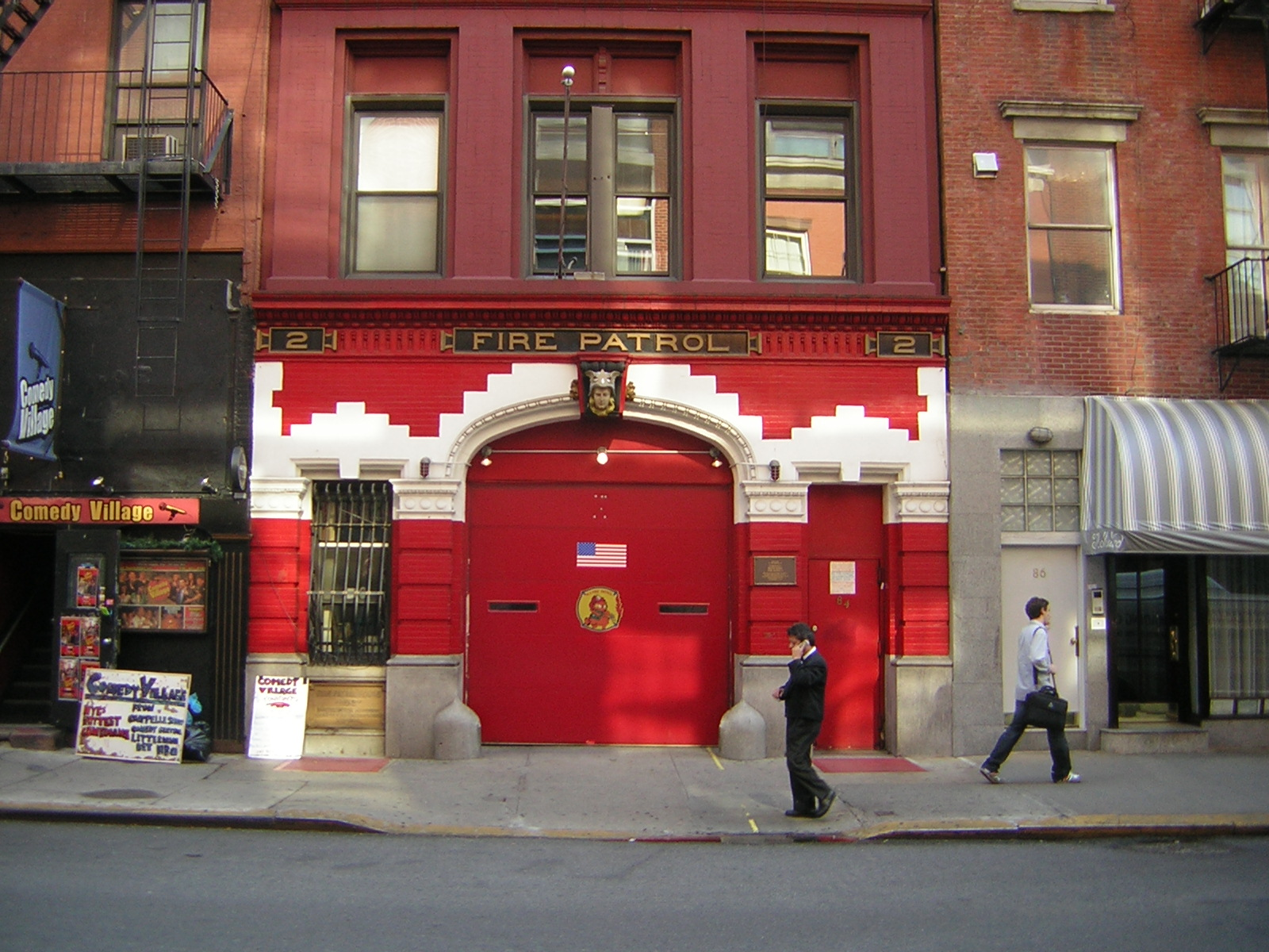 New York Fire Patrol Patrol House #2, on the south side of West Third Street (84 W 3d) in Greenwich Village, about a year after disbandment, and before it was sold to a television star.